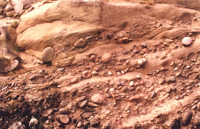 Spectacular fanglomerates of the Lerwick Sandstone Formation (middle Devonian, Sumburgh Group, Old Red Sandstone Supergroup), exposed at Scottle Holm, about 2 km north of Lerwick, westcoast of Mainland of Shetland Islands, Scotland.